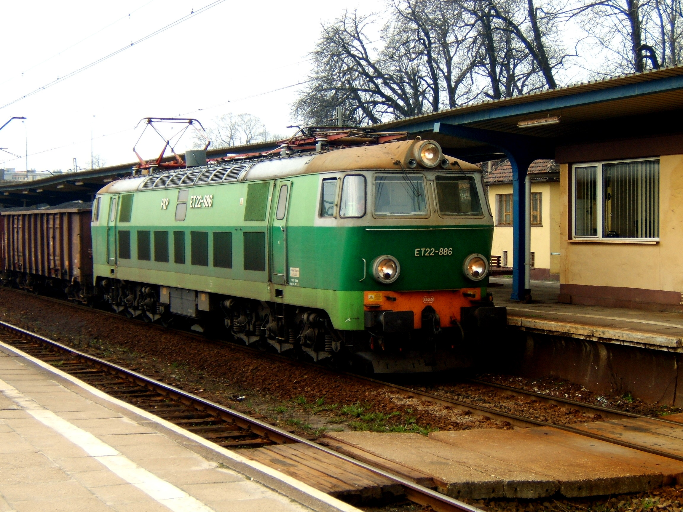 ET22-886 locomotive on Tarnowskie Góry train station, Poland.